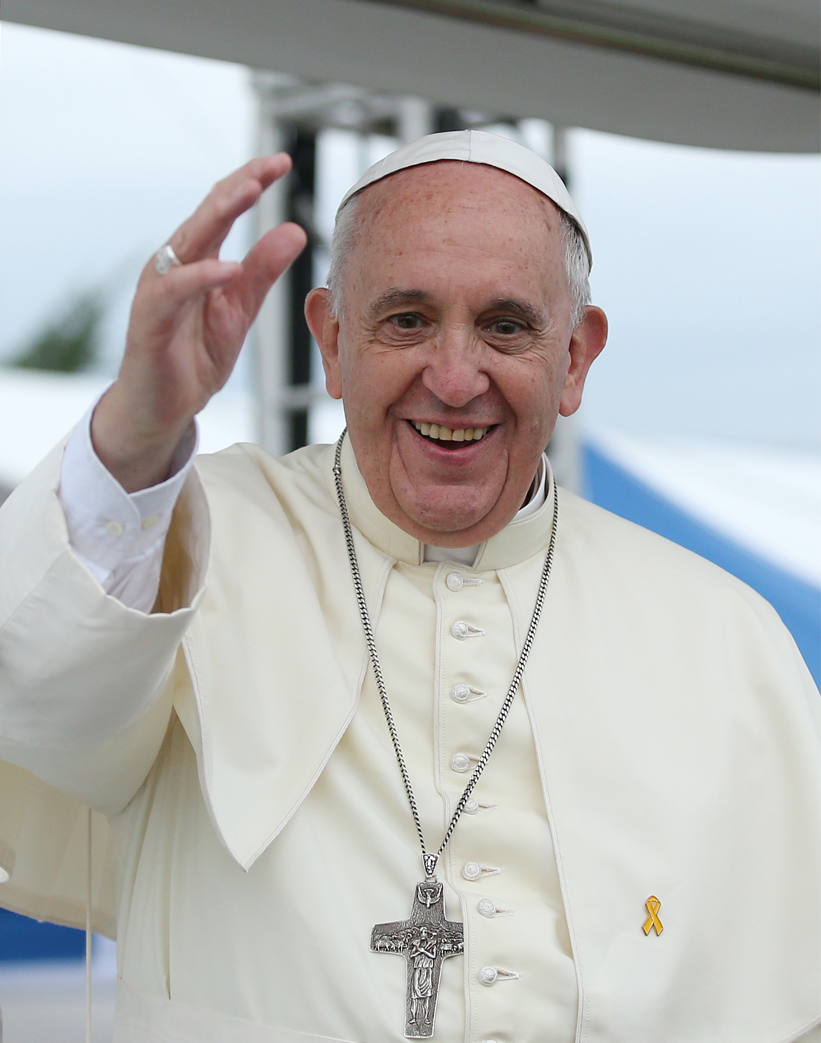 2014 Pastoral Visit of Pope Francis to Korea Closing Mass for Asian Youth Day August 17, 2014 Haemi Castle, Seosan-si, Chungcheongnam-do